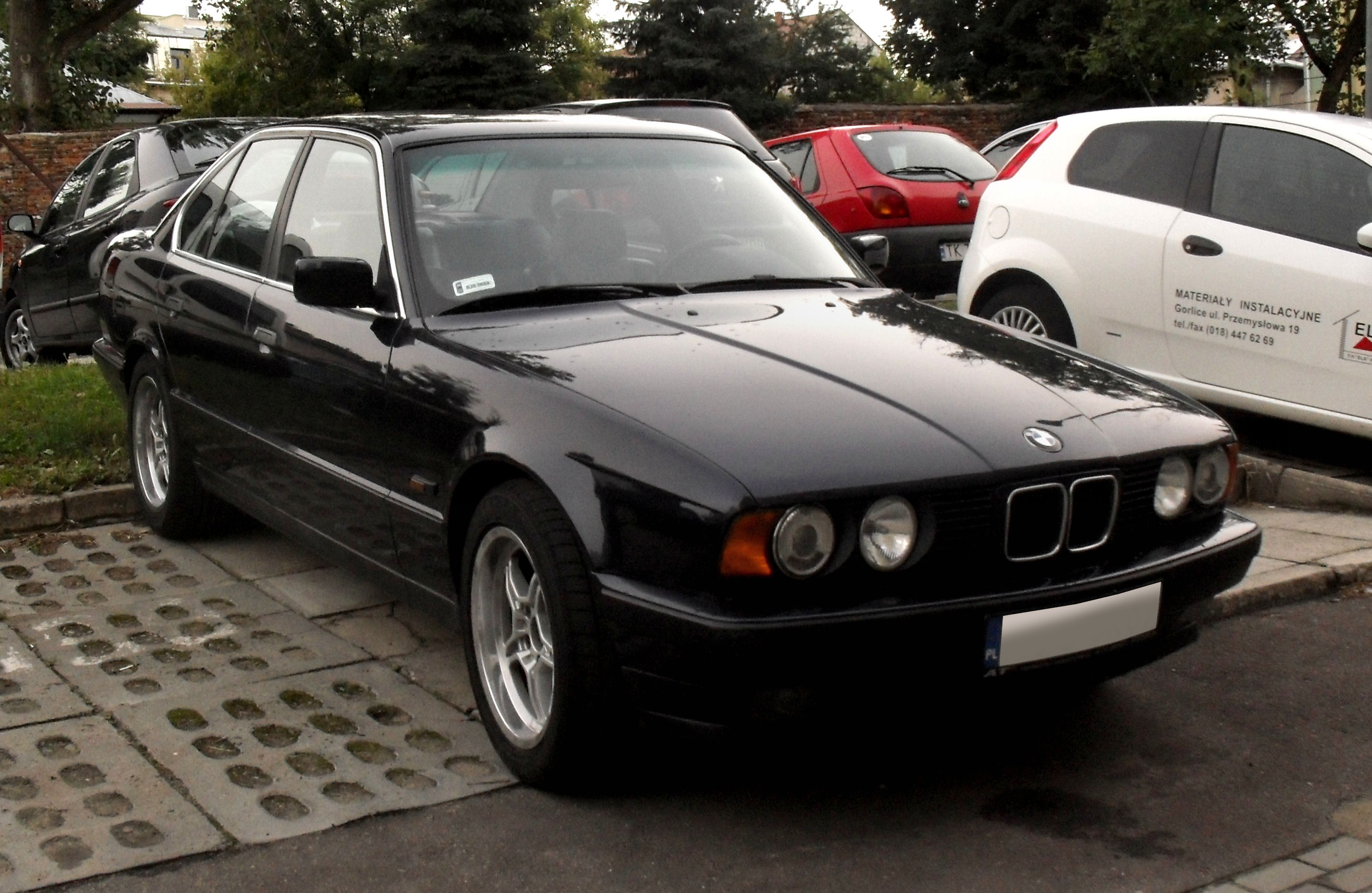 BMW E34 seen in Jasło, Poland.